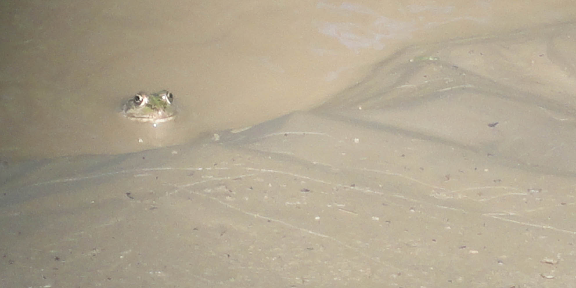 frog in the Swampland.Nowshahr_Iran.